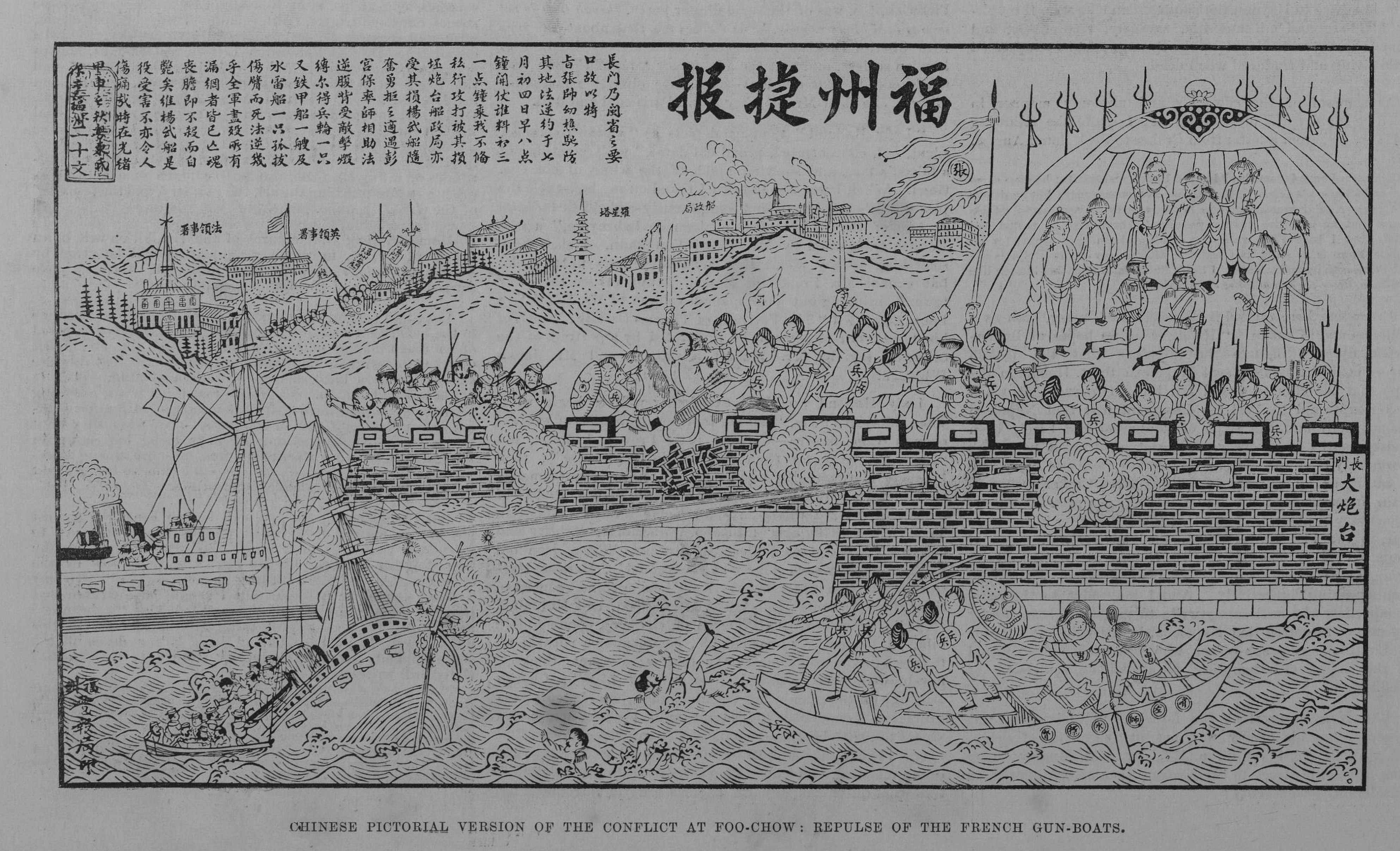 1800s lithographic illustration of Qing coastal batteries firing at French Ships at Fuzhou.